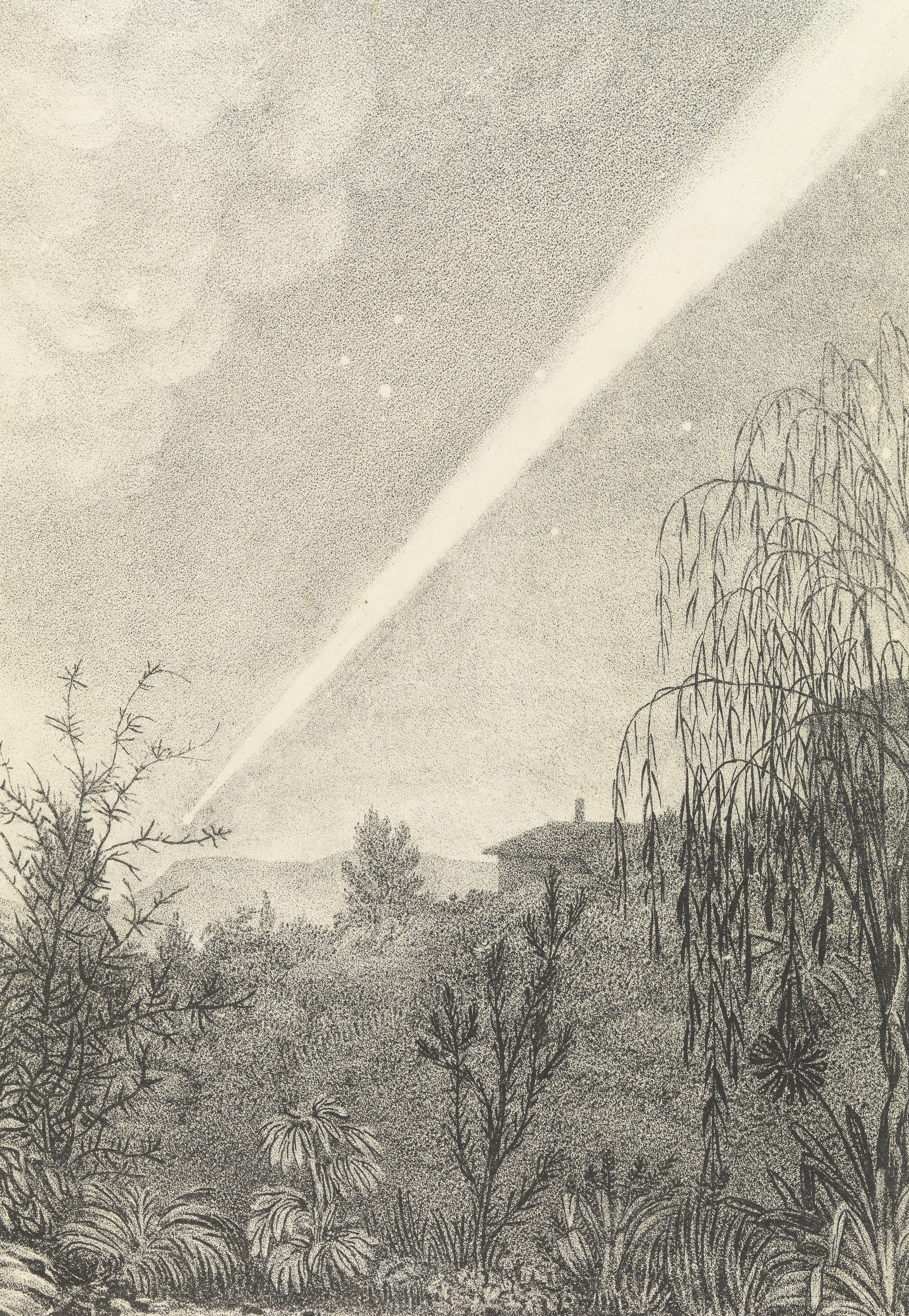 The Great Comet of 1843, as seen from Australia